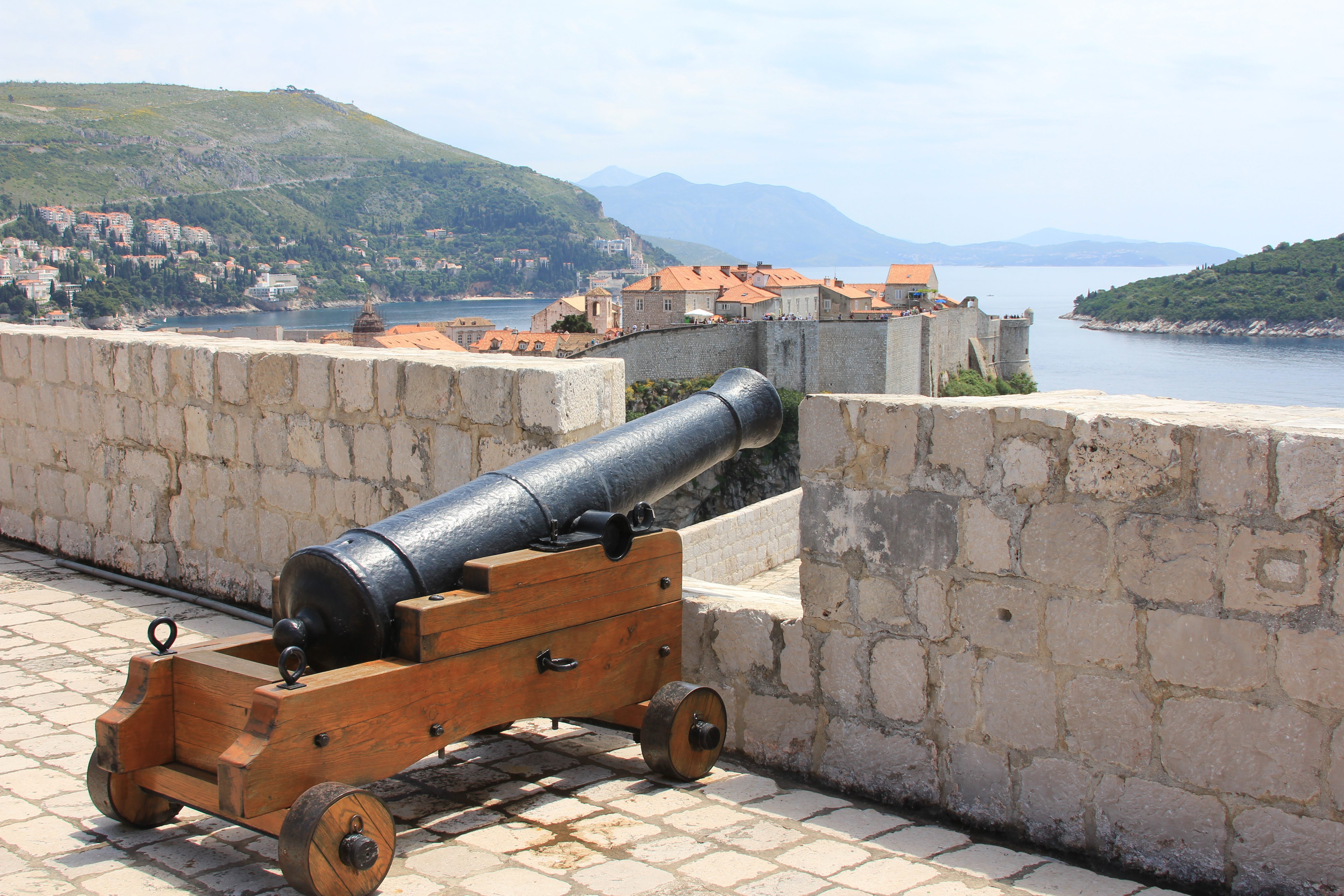 Cannon at the Fort Lovrijenac, Dubrovnik